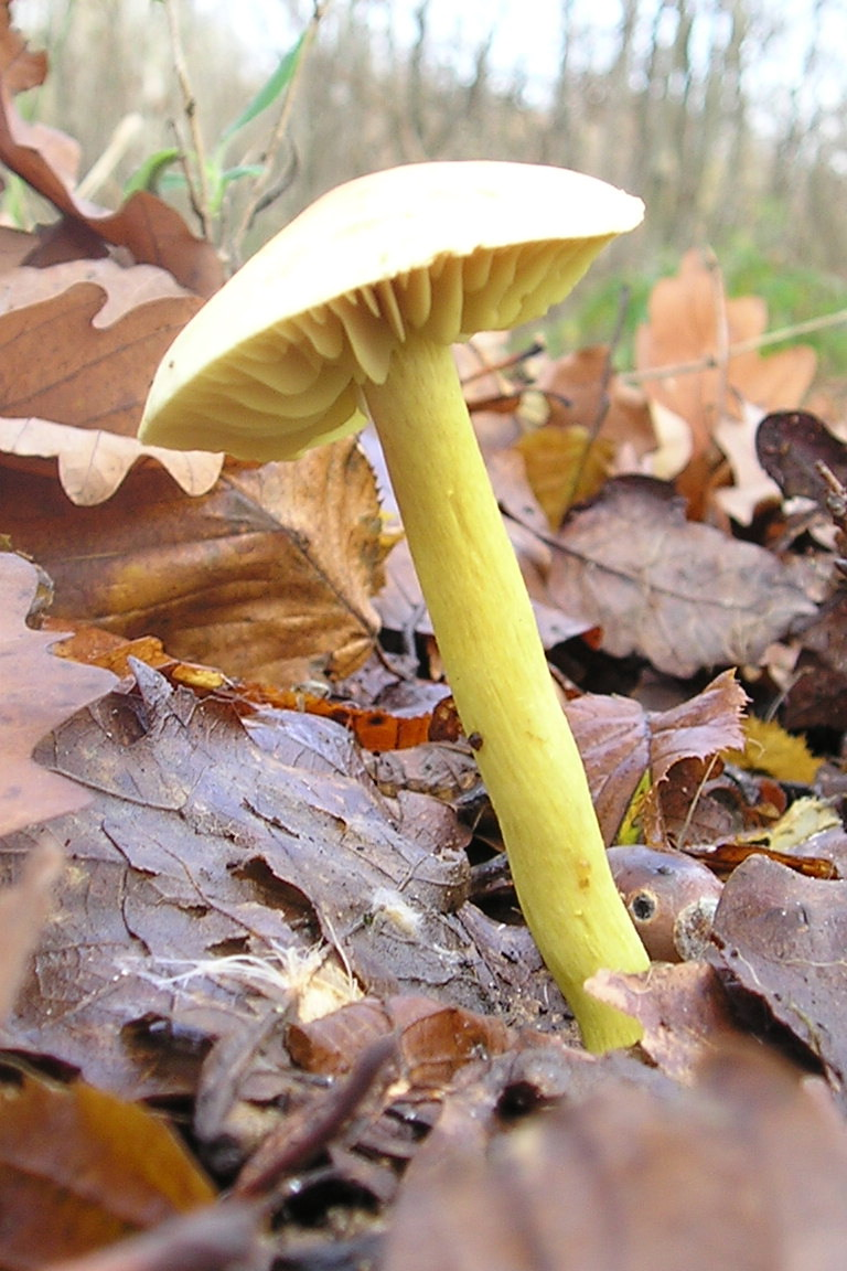 Tricholoma sulphureum in a French wood.